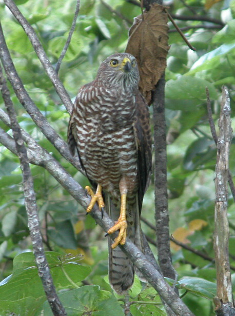 Photo taken by BoundaryRider on 24/05/2006, of wild Christmas Island Goshawk on Christmas Island